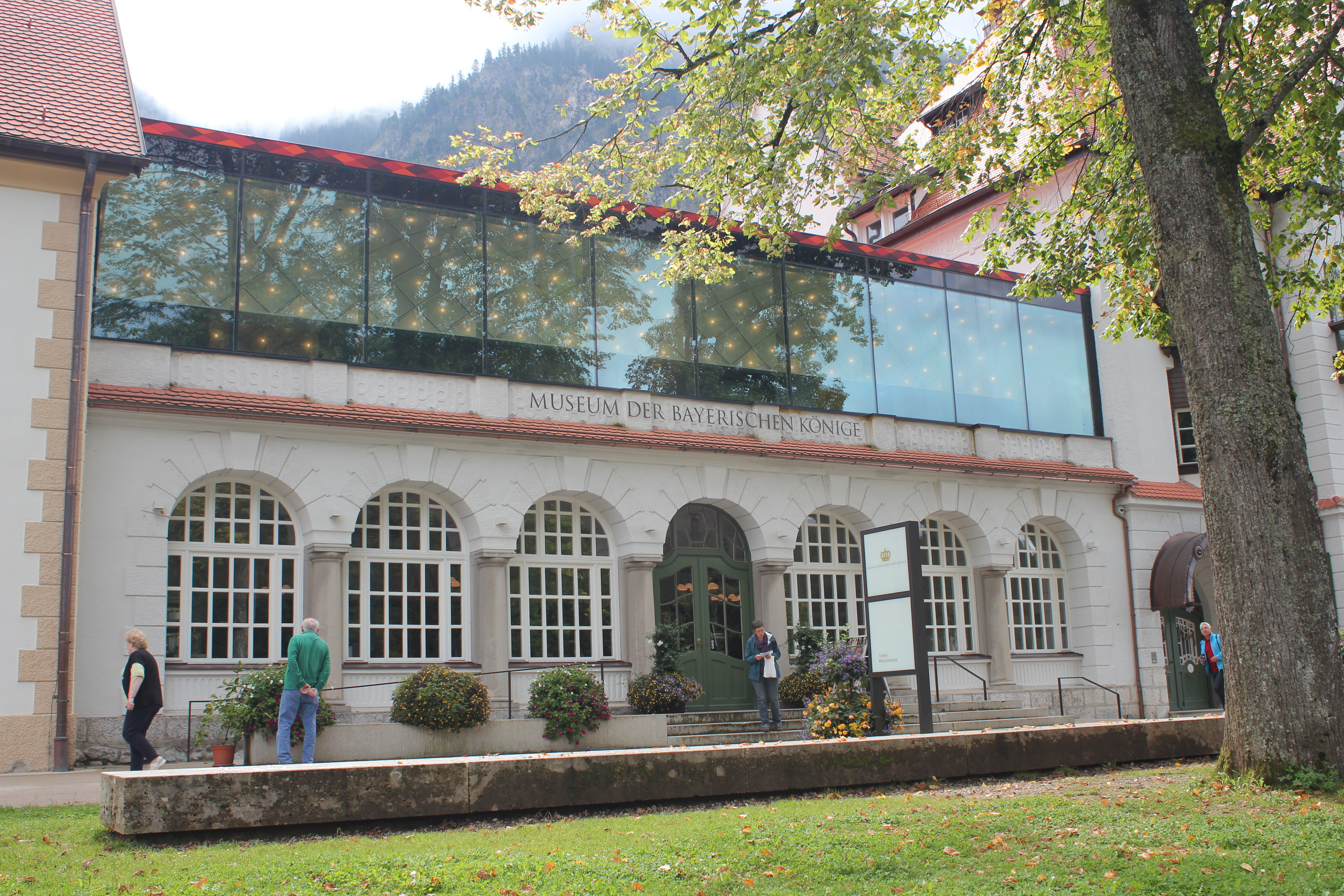 Museum of Bavarian Kings